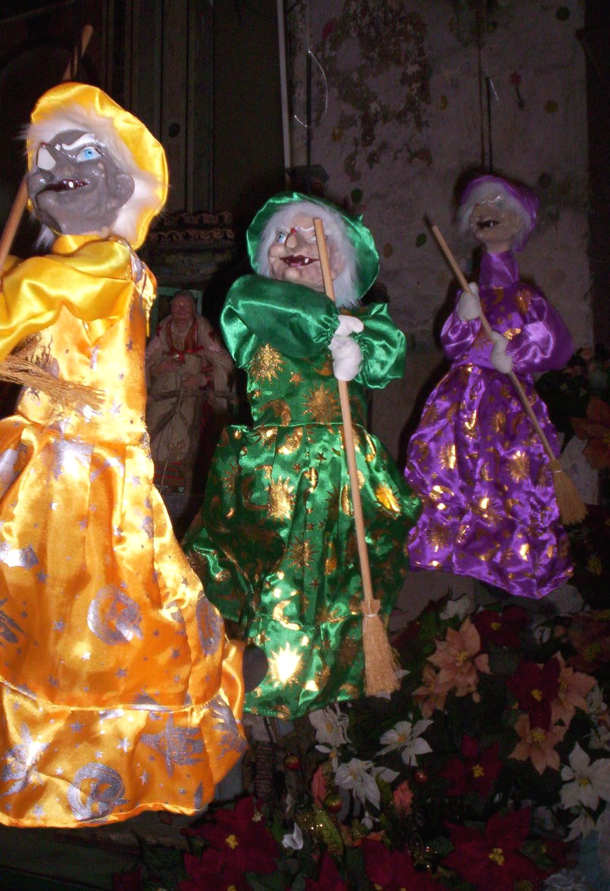 Created on 14 December 2005